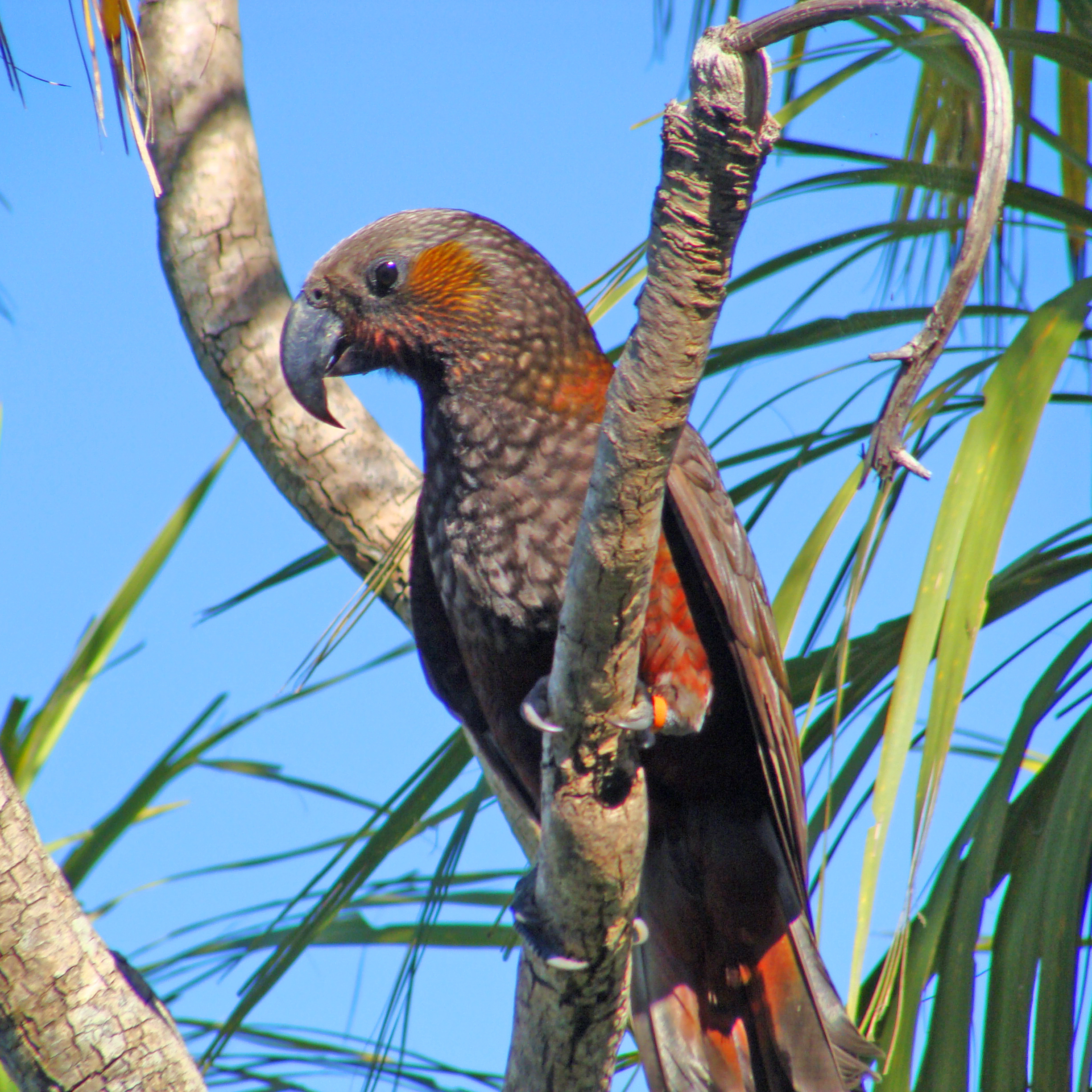 Kākā (Nestor meridionalis) in Wellington, New Zealand.